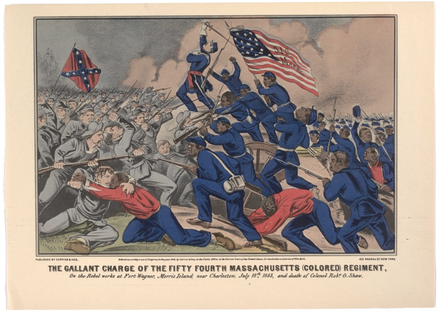 "The Gallant Charge of the Fifth Fourth Massachusetts (Colored) Regiment, on the Rebel Works at Fort Wagner July 18th, 1863," New York: Currier & Ives, 1863. (Gilder Lehrman Collection, New York City, NY).